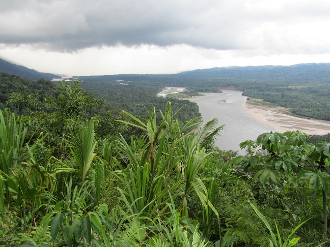 A view of The Jungle Ultra Long Stage - 90km of extreme terrain